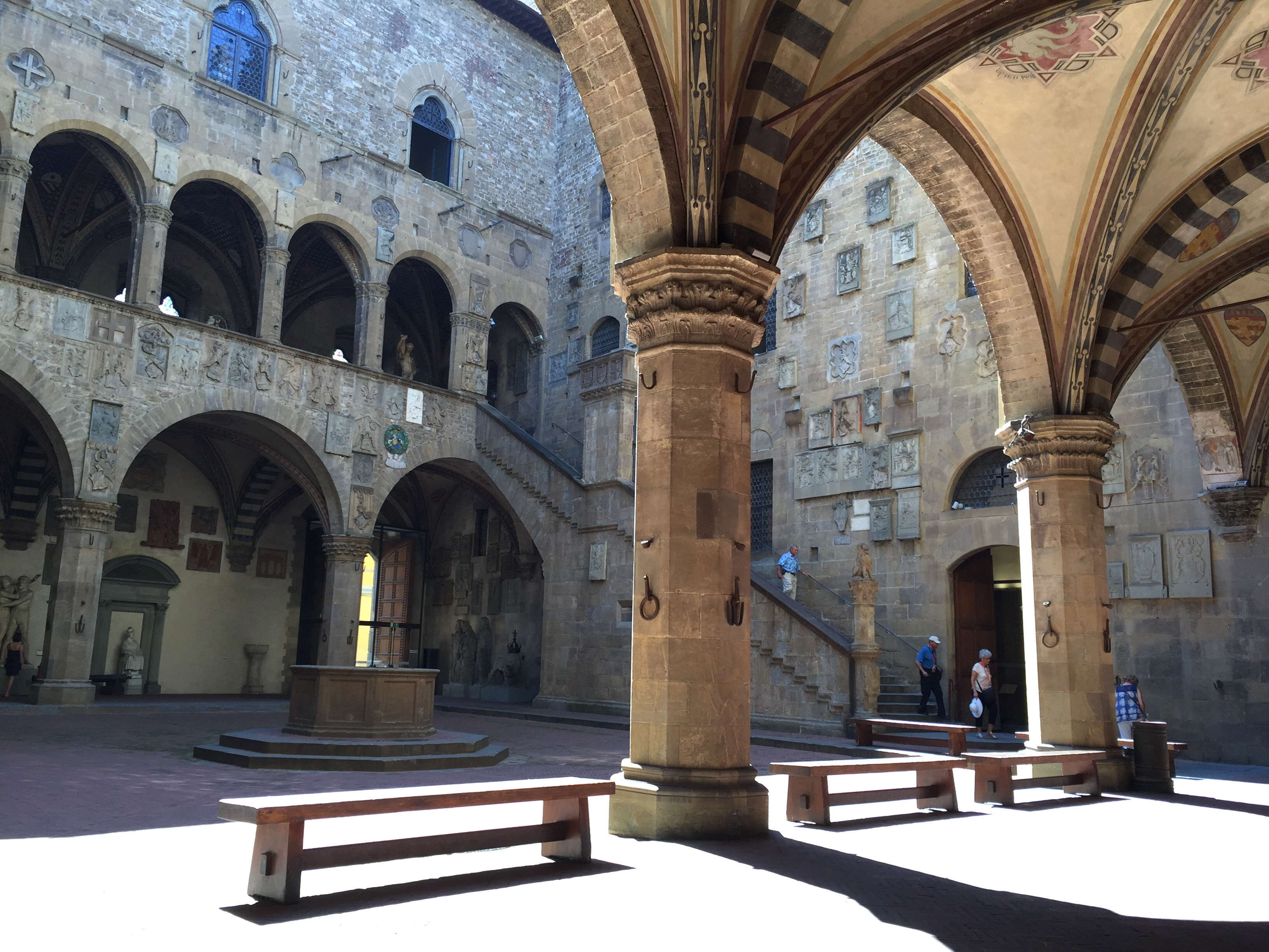 Il cortile del Museo del Bargello